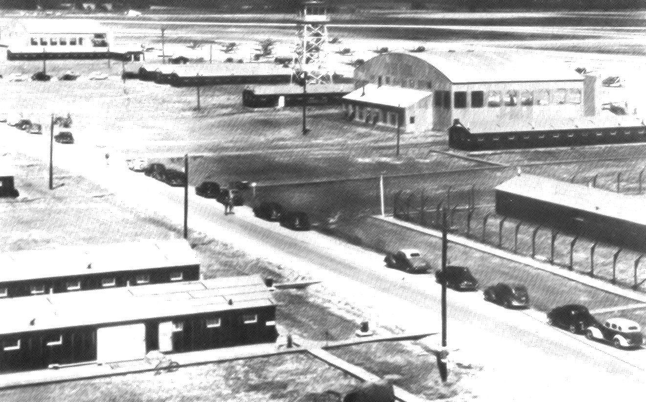 Coffeyville AAF Stockade Flight Line Tower 1945